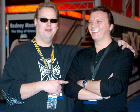 Directors Nic Andrews and Jonathan Morgan at the 2005 Adult Entertainment Expo